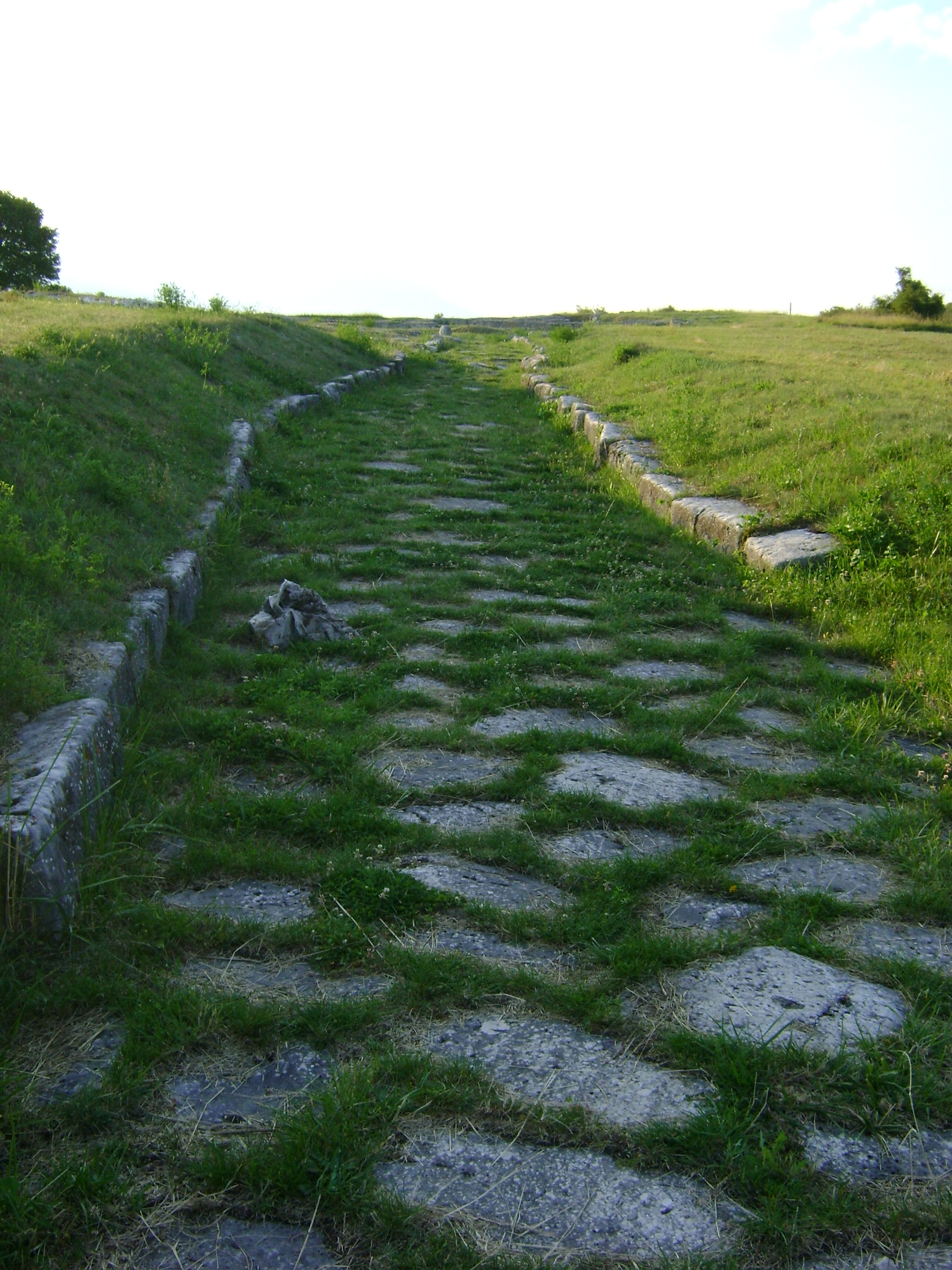 The East street, in the ancient Roman city of Juvanum, Montenerodomo, province of Chieti, Abruzzo cerca